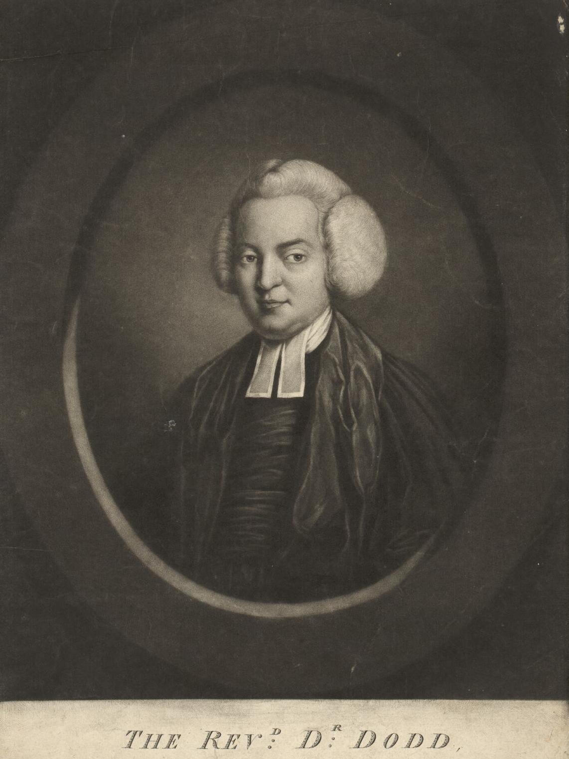 A portrait from the Welsh Portrait Collection at the National Library of Wales. Depicted person: William Dodd – English Anglican clergyman and forger